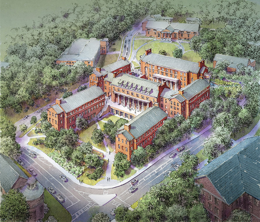 Terry’s Business Learning Community is 306,000-square-foot campus currently being constructed in Athens.